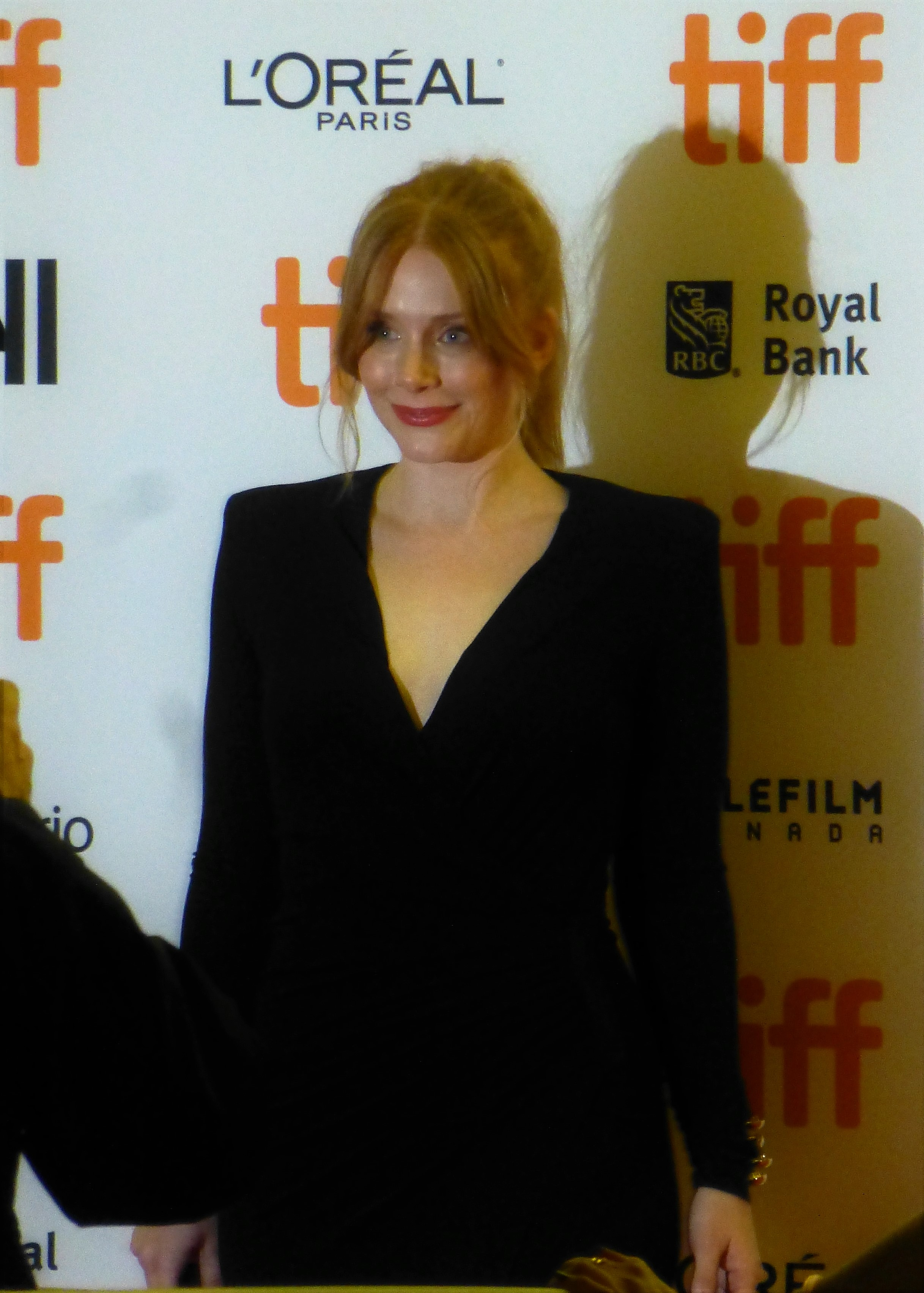 Bryce Dallas Howard at the premiere of Nocturnal Animals, 2016 Toronto Film Festival